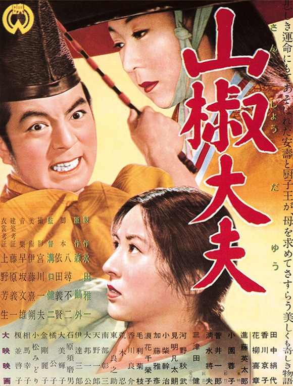 Movie poster for 1954 Japanese movie Sansho the Bailiff (山椒大夫, Sanshō Dayū).